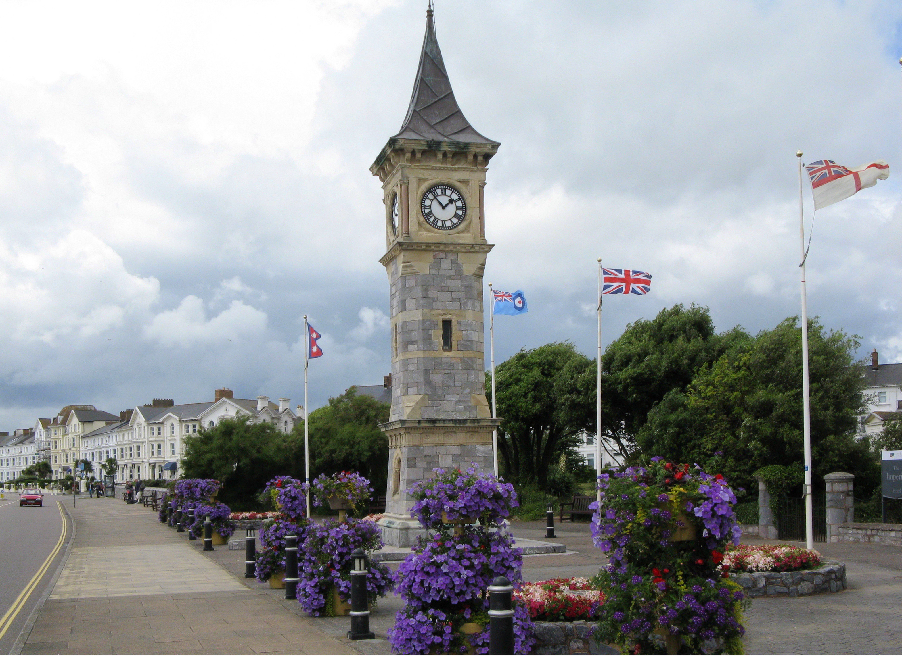 The Queen Victoria Diamond Jubilee Clock Tower on the Exmouth seafront, South Devon, England.